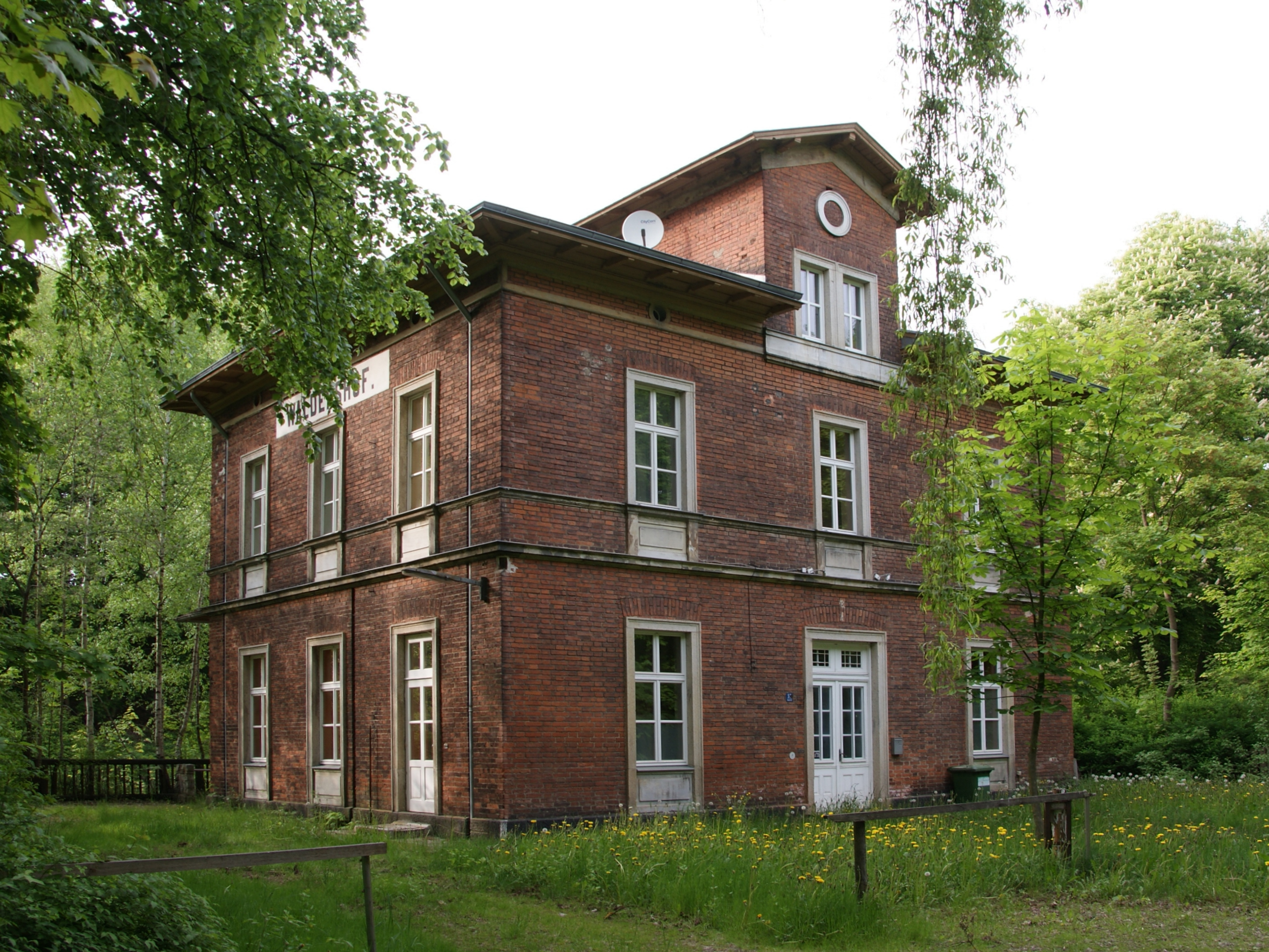 Waldershof, old train station